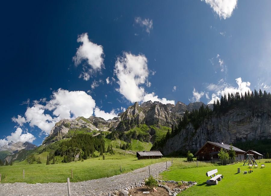 Barme, above Champéry